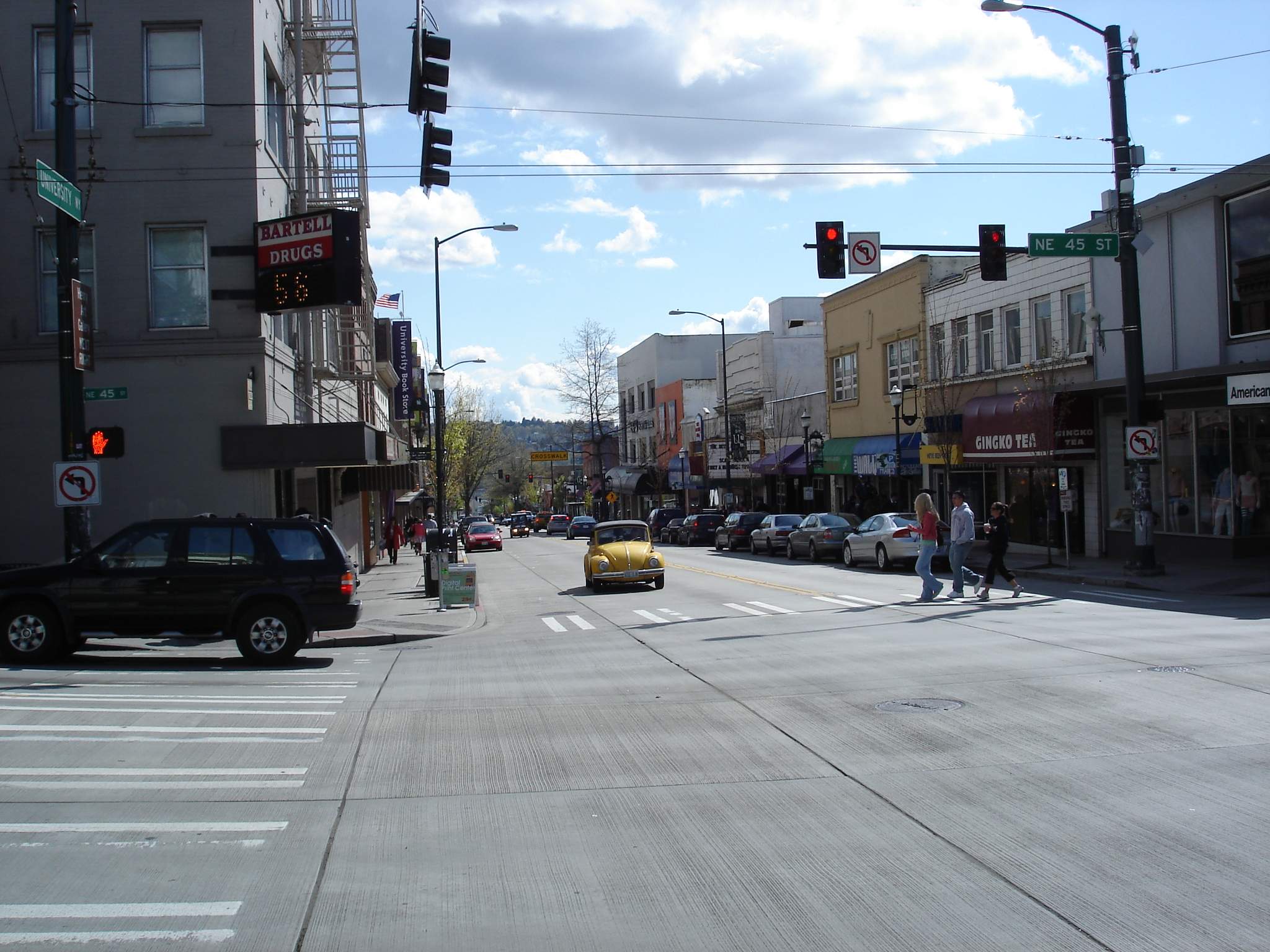 University Way NE, commonly known as The Ave, southbound from NE 45th Street in the University District in Seattle, Washington.